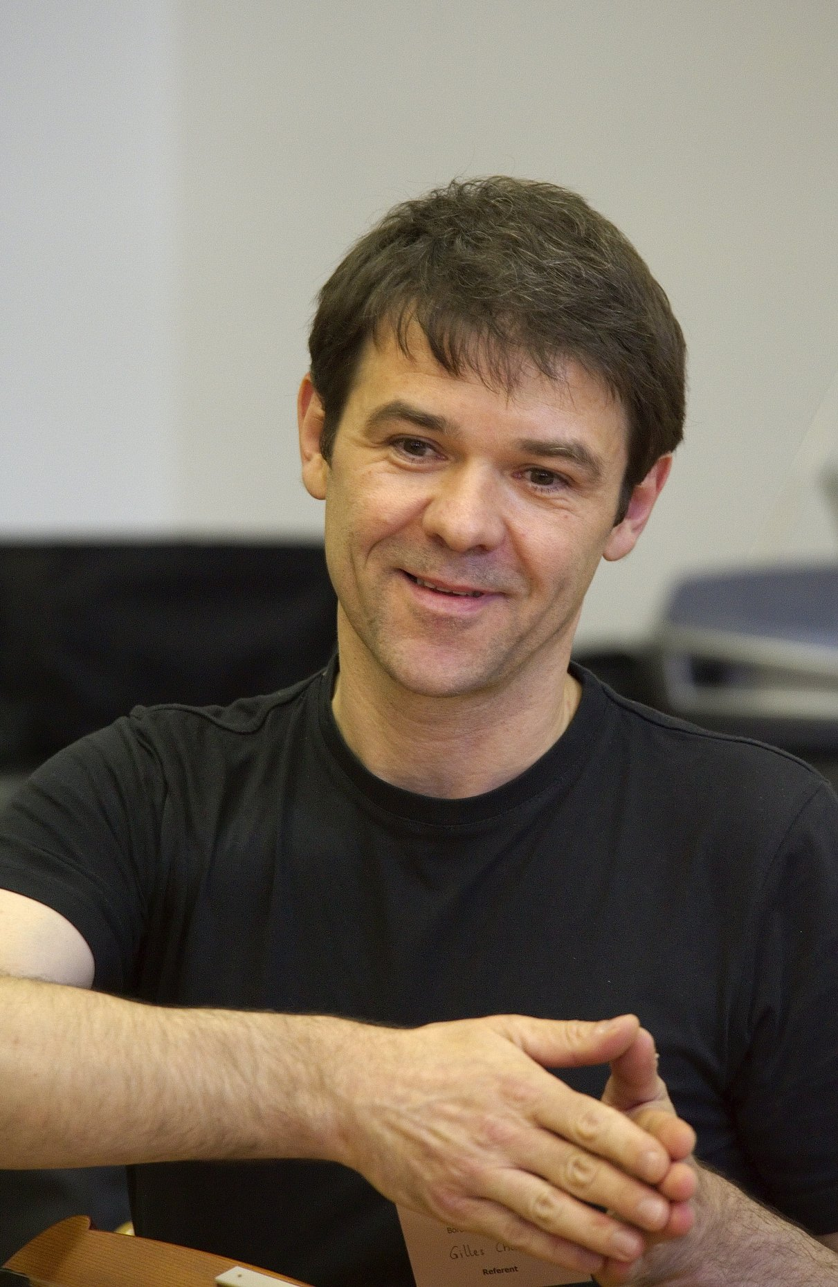 Gilles Chabenat, French Hurdy Gurdy player, 2009 at festival in Austria